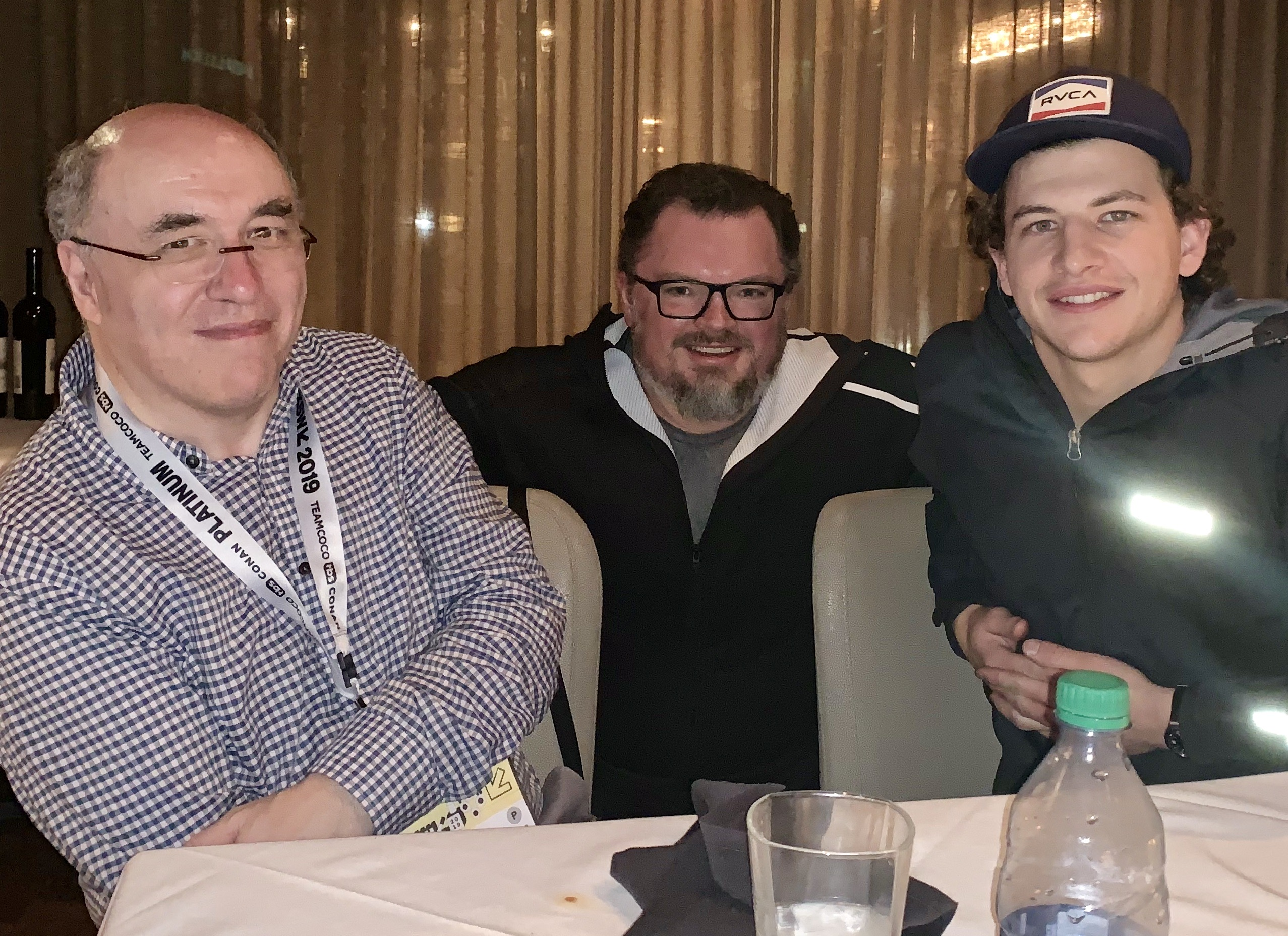 Adam Jay Harrison (center) pictured with inventor and entrepreneur, Stephen Wolfram, and actor Tye Sheridan at the 2019 SXSW Conference in Austin, TX.